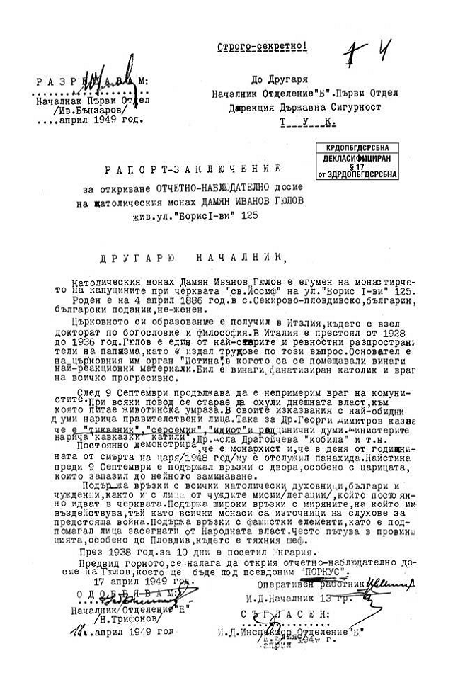 Report for opening of observation dossier of father Damyan Gyulov in April 1949.